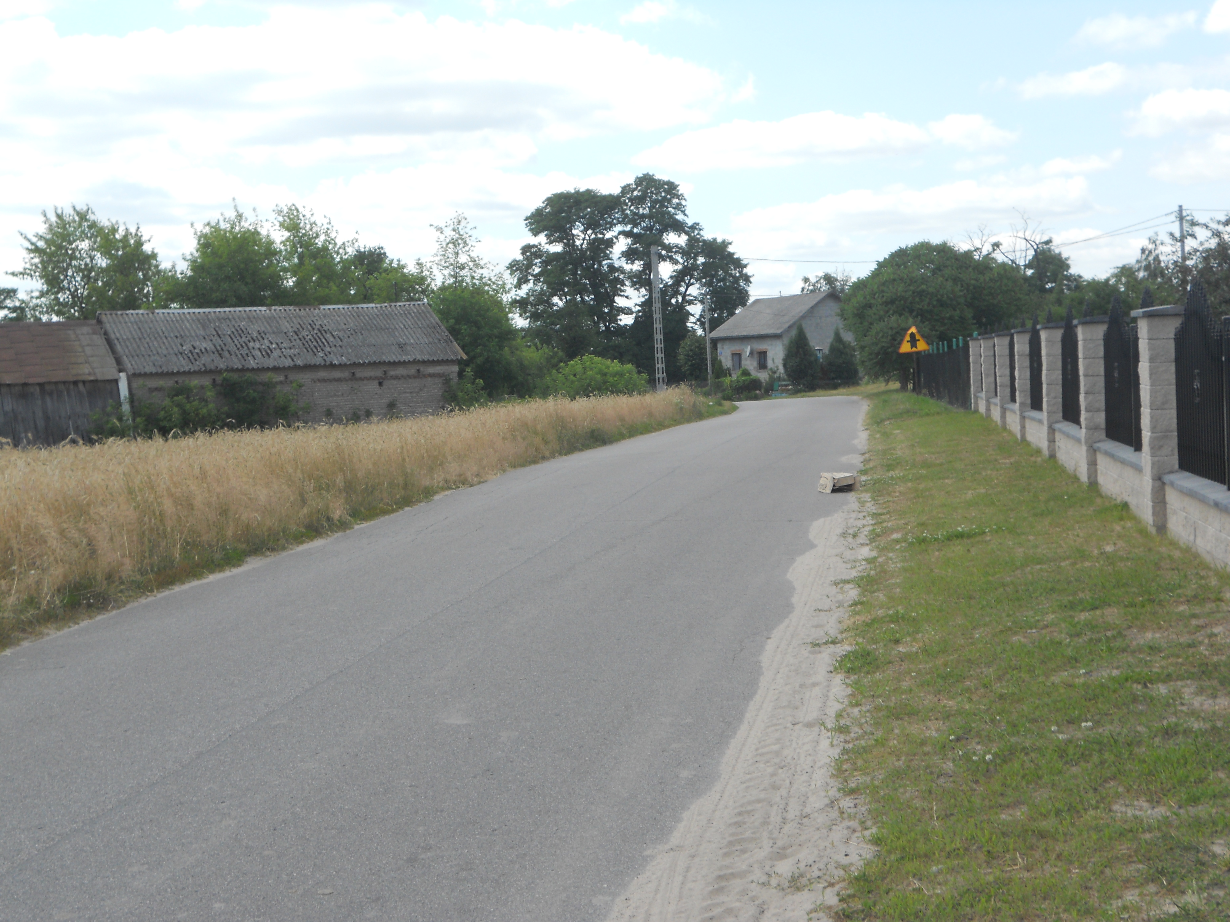 Przylom